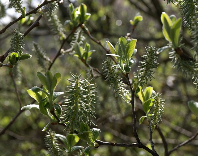 Sallow, Lower Piles. Proabbly Salix cinerea subsp. oleifolia, growing by the stream shown in 1274426.